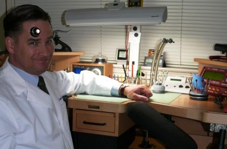 Photo of Modern Watchmaker